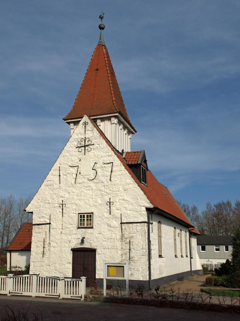 Church St. Nikolai in Treia (Schleswig-Holstein, Germany) photo 2011